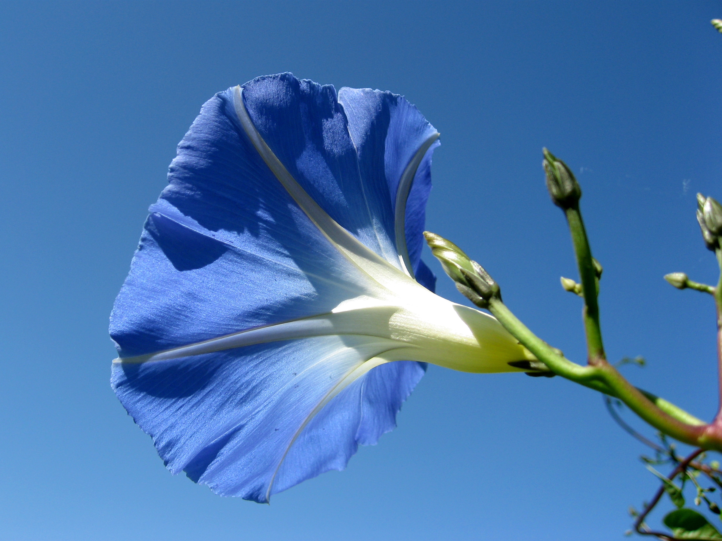 Ipomoea tricolor heike